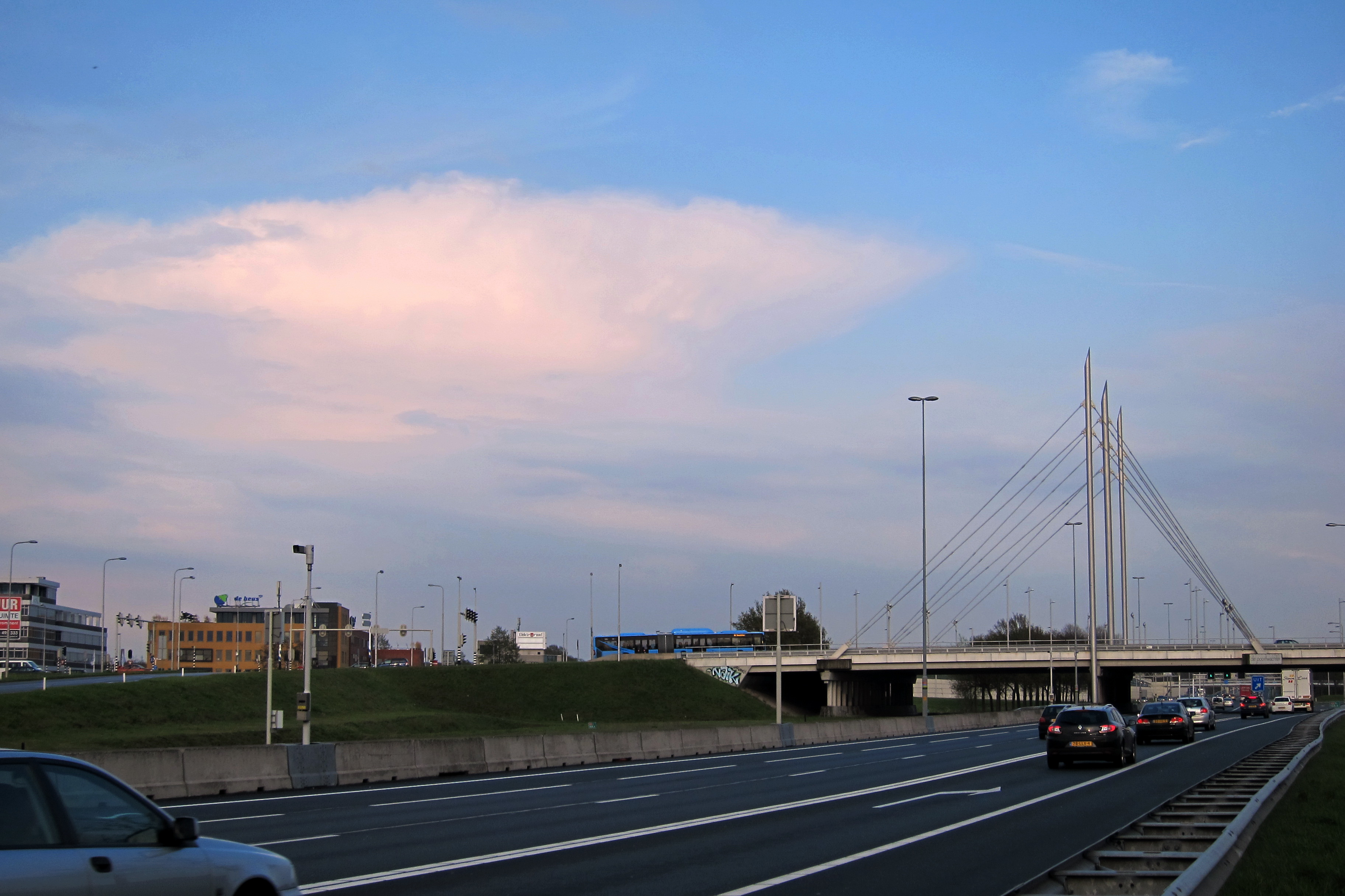 An anvil cloud with much rain above Poortwachter bridge A12 motorway Ede at 20 April 2012